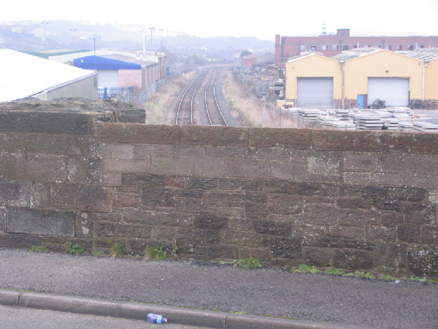 Bridge over railway into industrial area of Maryport. Bridge widened in 1973 by Maryport Urban District Council.